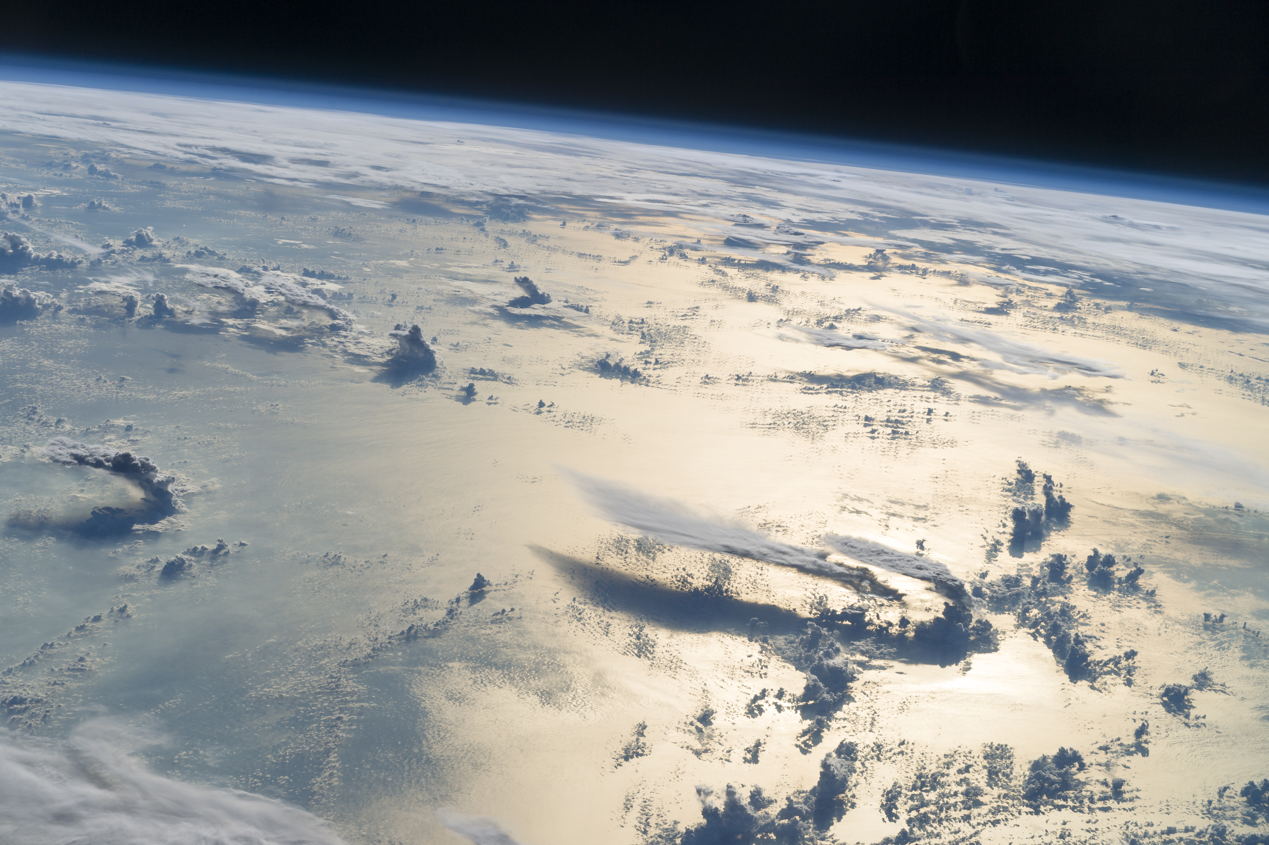 Flying over the Philippine Sea, an astronaut looked toward the horizon from the International Space Station and shot this photograph of three-dimensional clouds, the thin blue envelope of the atmosphere, and the blackness of space.